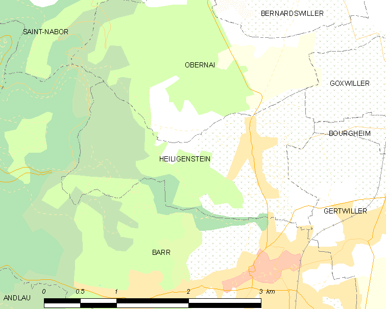 Map of French municipality